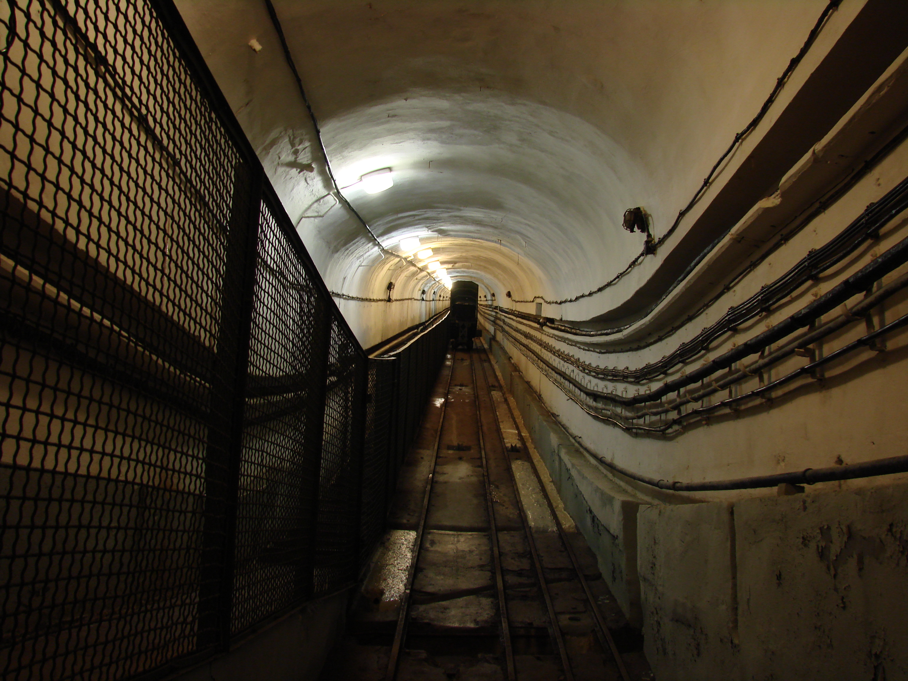 The inclined plane of the Four à Chaux, ascending, an exception of the Maginot Line.